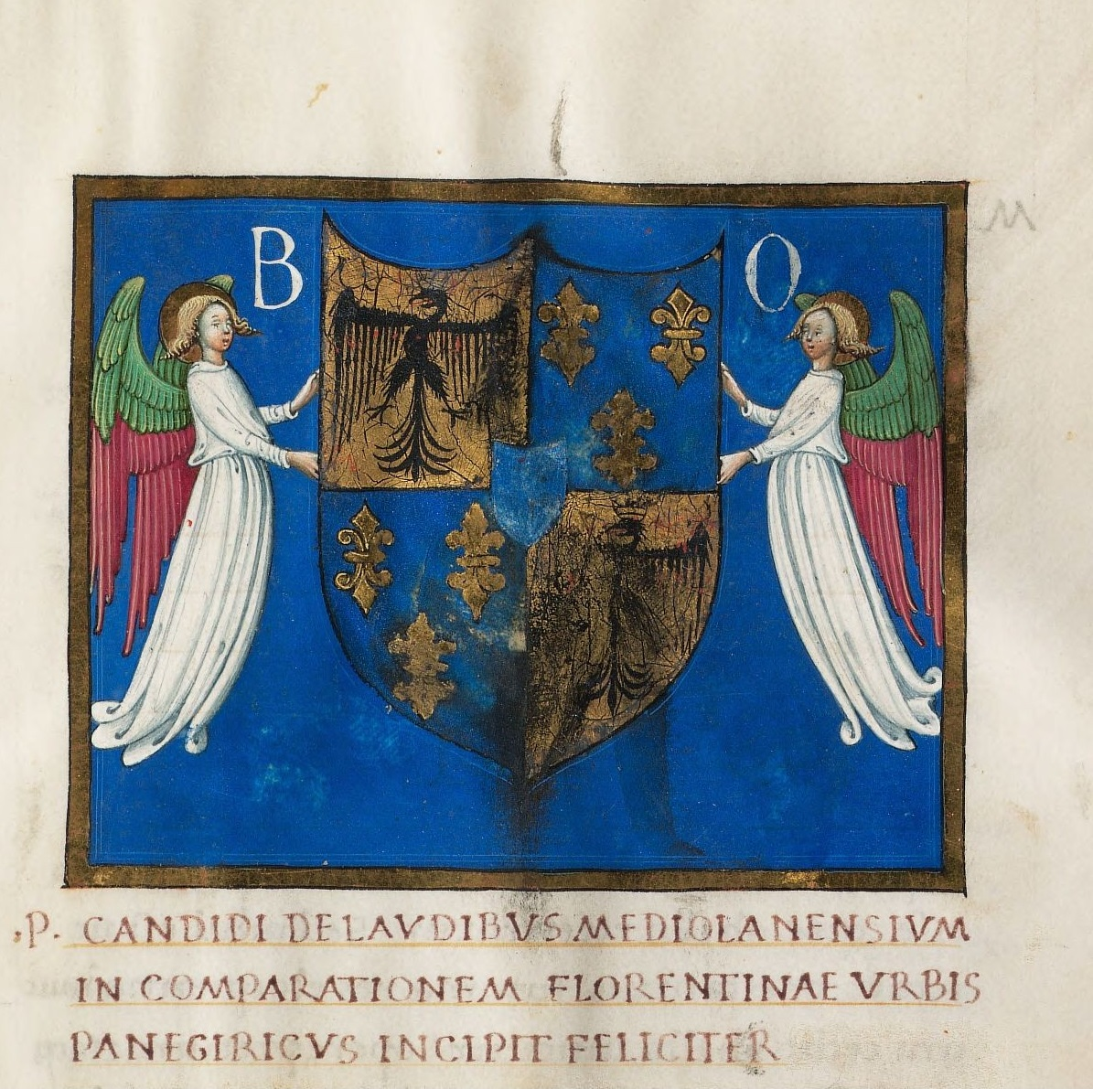 Detail from the first page of Opuscula (circa 1460-1465), manuscript, by Pier Candido Decembrio (1399-1477). MS Richardson 23, Houghton Library, Harvard University